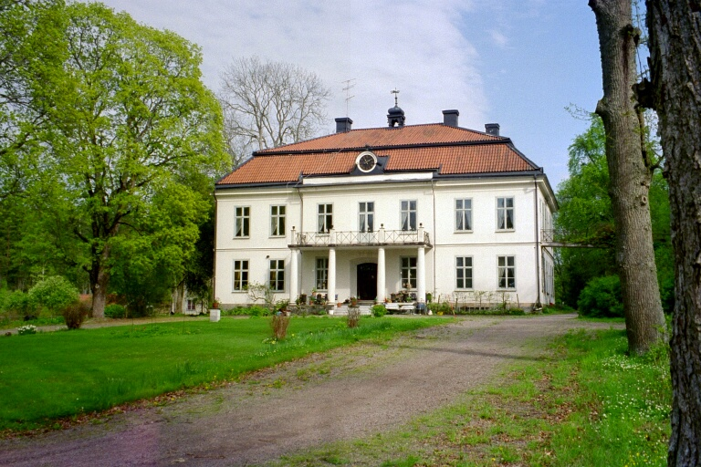 Svärta estate - new corps-de-logi